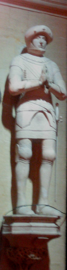 Rudolf IV. Margrave of Hachberg-Sausenberg (1426-1487); Photograph of his monument in the Collegiate Church of Neuenburg (CH